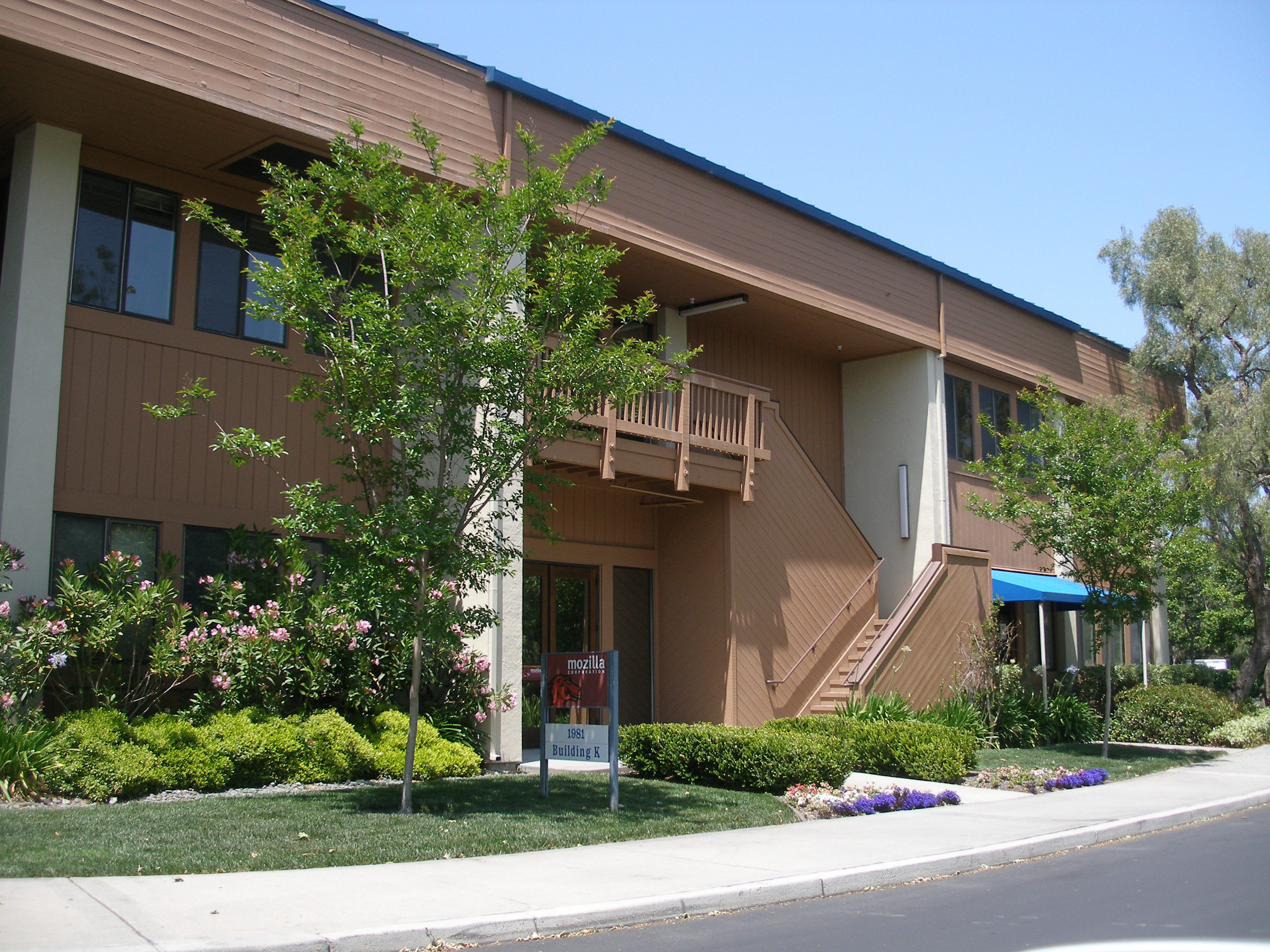 The Mozilla Headquarters